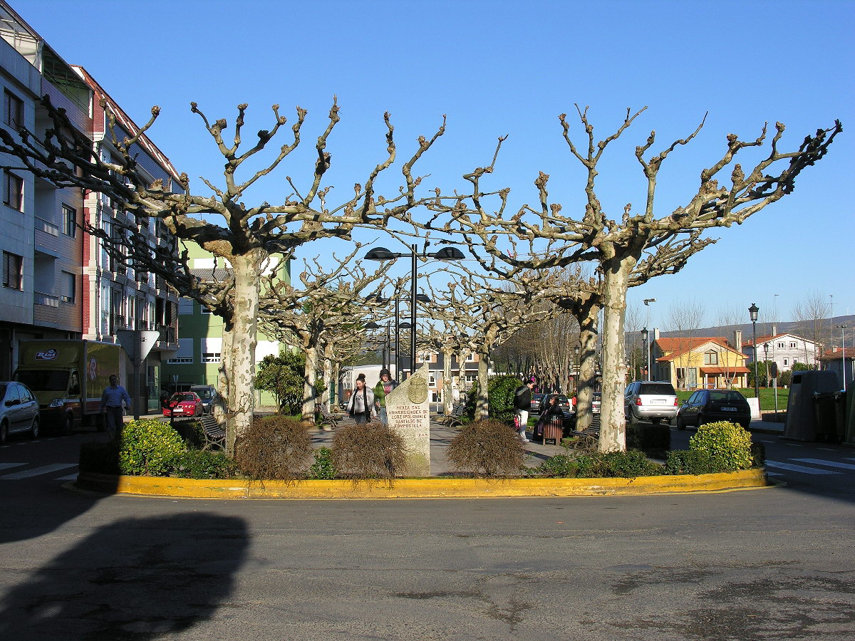 Melide, in Galicia (Spain).